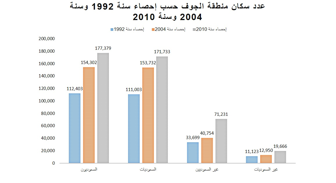 Numbers of Saudis and non-Saudis in Al Jawf Region.